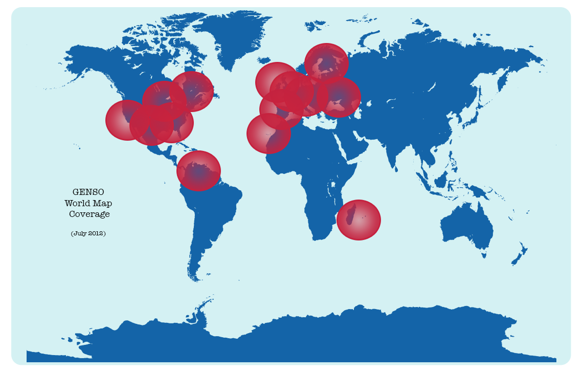 this is the GENSO network map coverage ,July 2012.